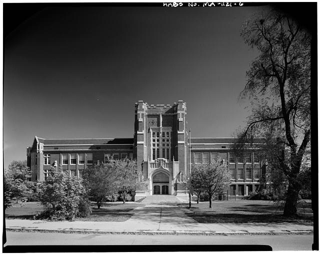 John Wingate Weeks Junior High School, Hereward & Rowena Streets, Newton Center, Middlesex County, MA, front elevation